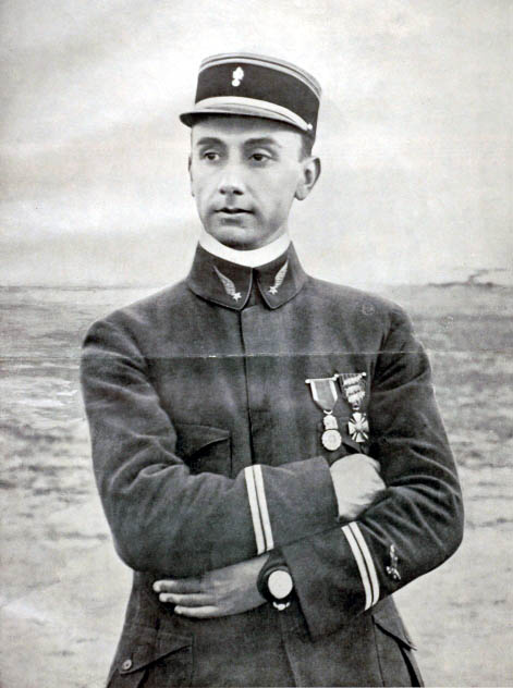 Argentine airliner pilot, Vicente Almandos Almonacid.